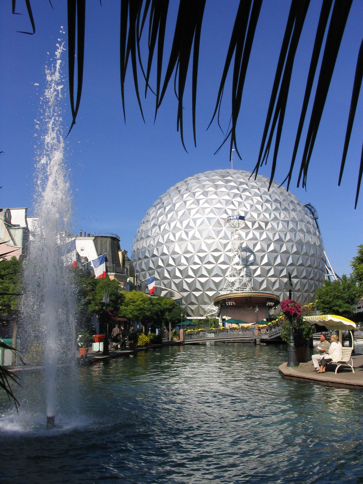 Eurosat, Europa-Park, Rust, Baden-Württemberg, Germany.